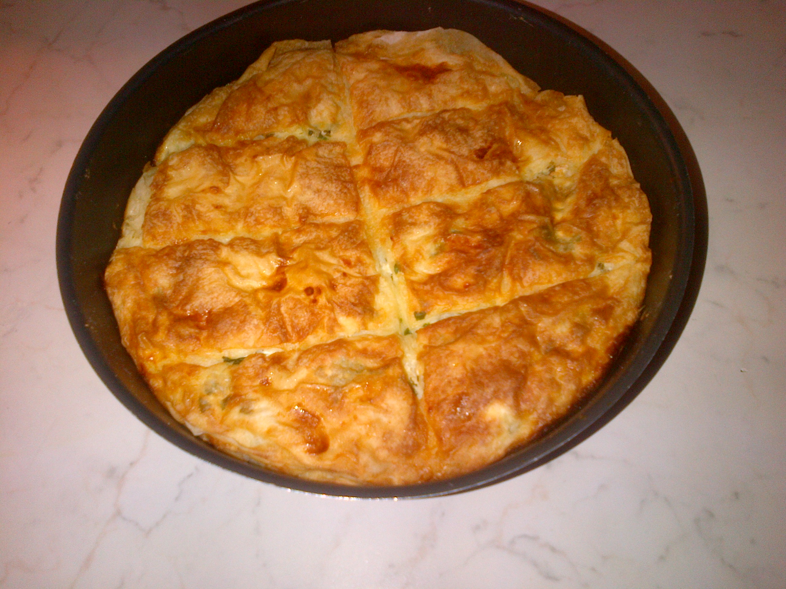 "Peynirli börek" or "peynirli tepsi böreği" is a home-made börek with "beyaz peynir" (Turkish white cheese).